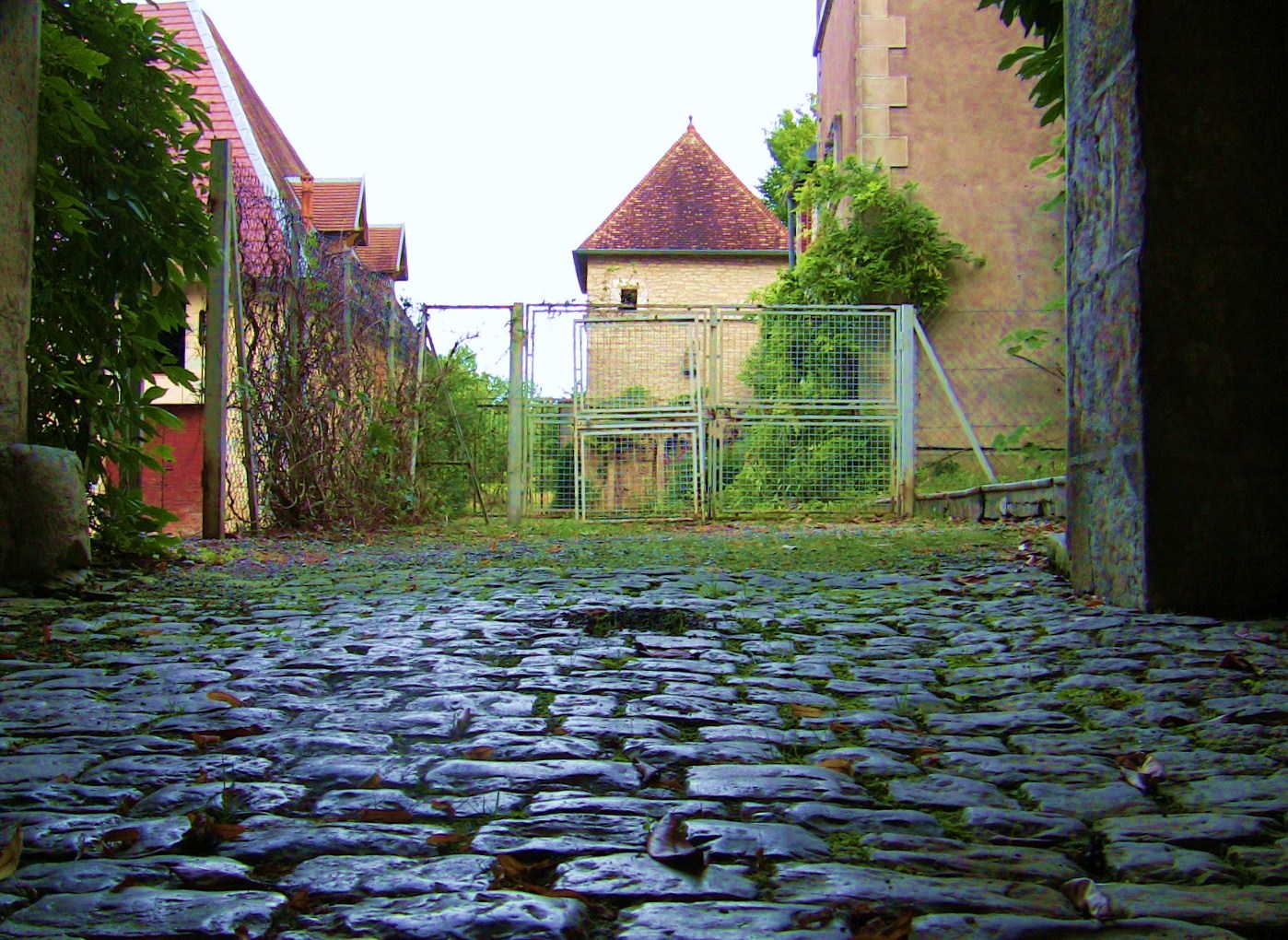 Castle Saint-Laurent, in the area of Planoise, in Besançon (Doubs, France)